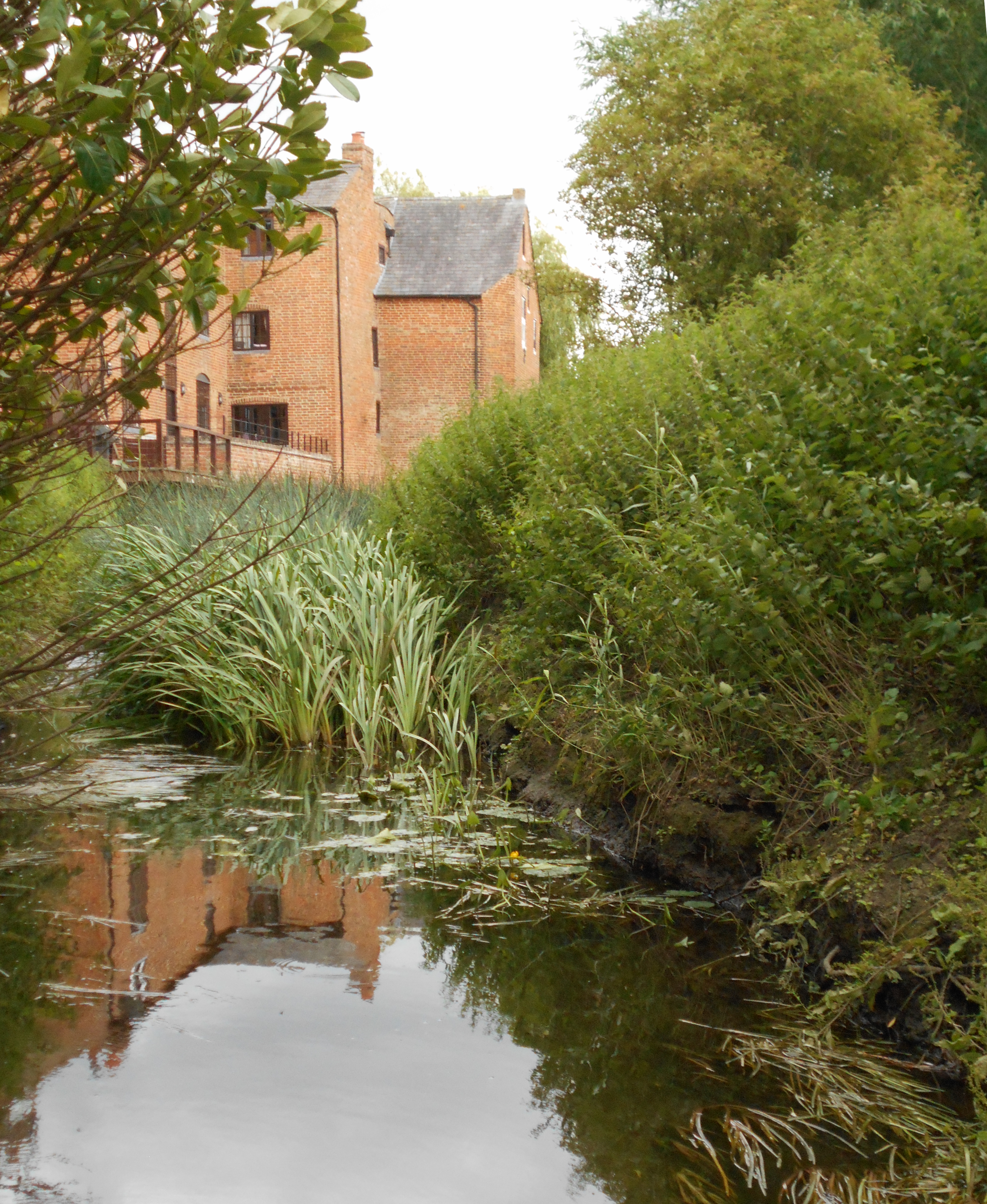 The old water mill at Little Lawford, Warwickshire, now a private house seen from the mill race channel off the River Avon.